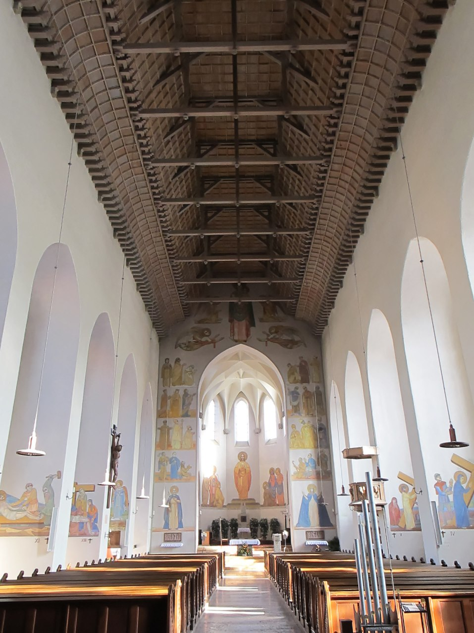 kath. church St. Rupert